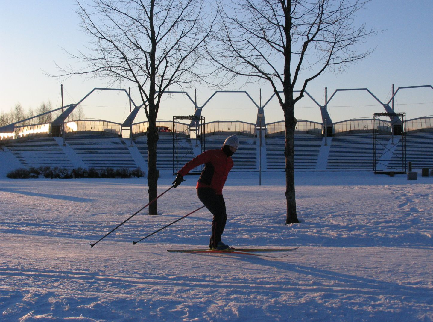 Skate skiing in Laulurinne, Joensuu.